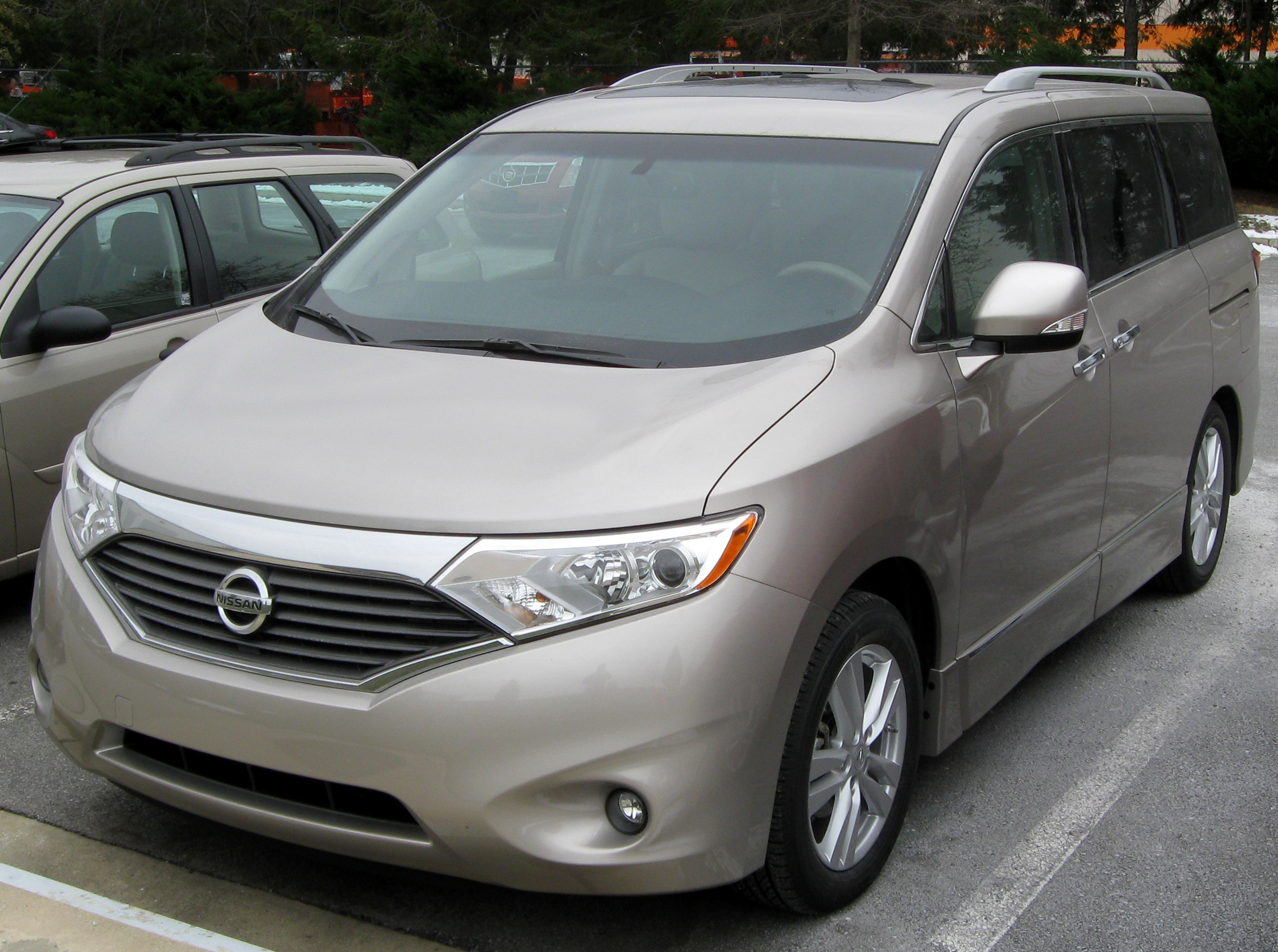 2011 Nissan Quest photographed in Upper Marlboro, Maryland, USA.